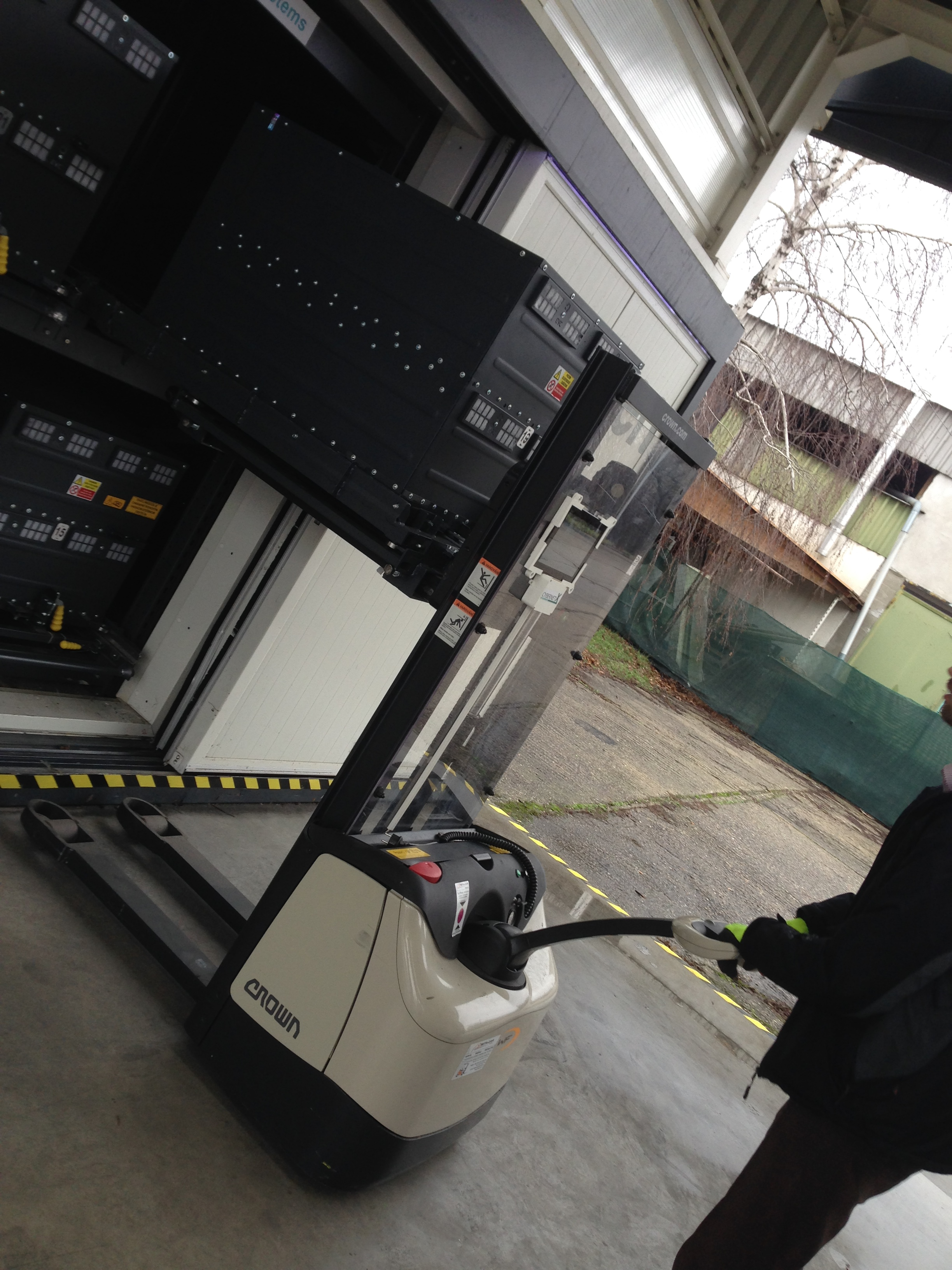 Loading of a Voltia LKW battery pack into docking station